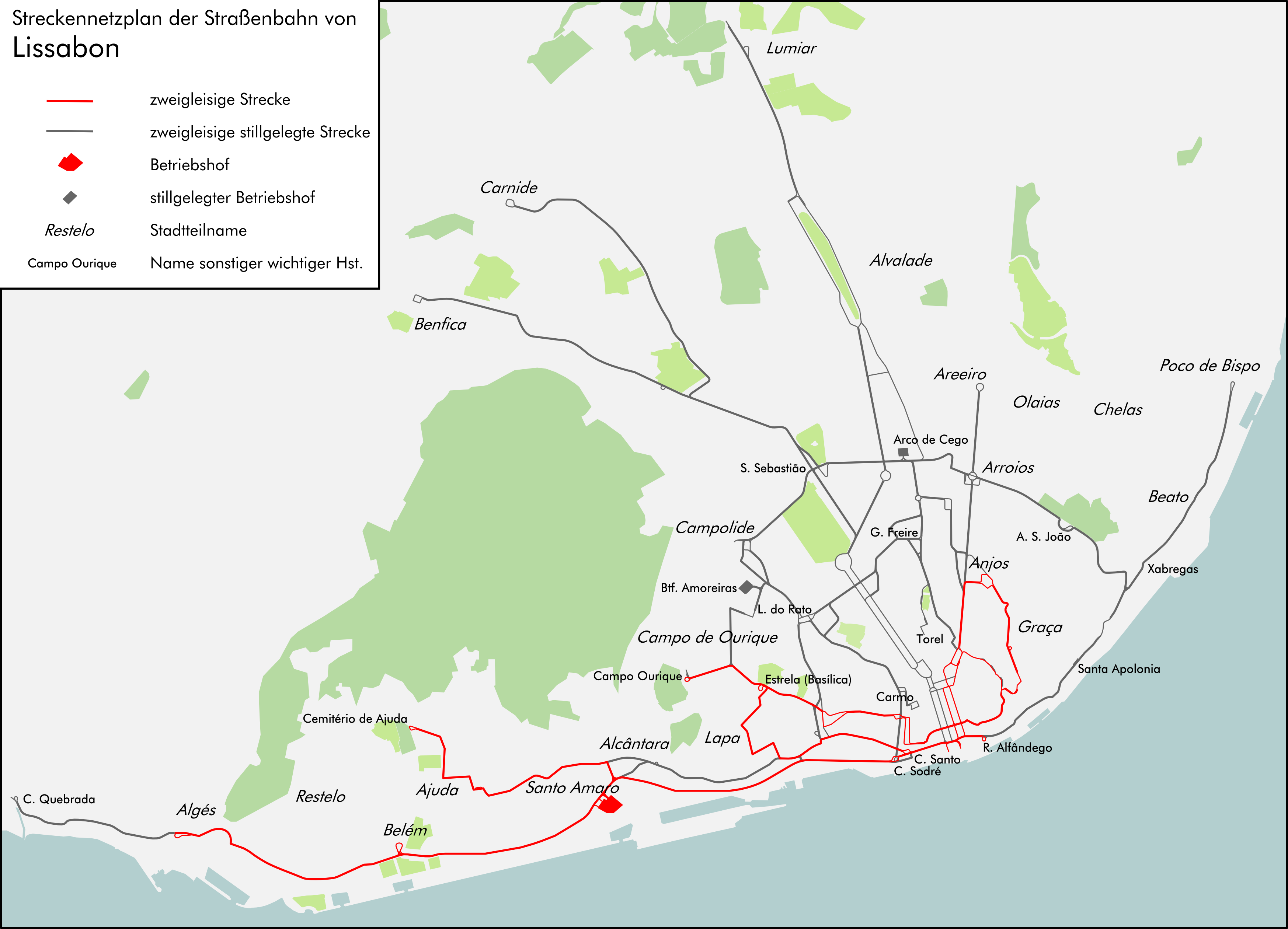 Map of tram-route sections in Lisbon. Legend (in German): Zweigleisige Strecke = Double-track sections; Zweigleisige stillgelegte Strecke = Closed double-track sections (a thinner line indicates a single track); Betriebshof = Carhouse/depot; Stillgelegter Betriebshof = Closed carhouse/depot; Stadtteilname = Name of area/district; Name sonstiger wichtiger Hst. [Haltestelle] = Name of other important stop